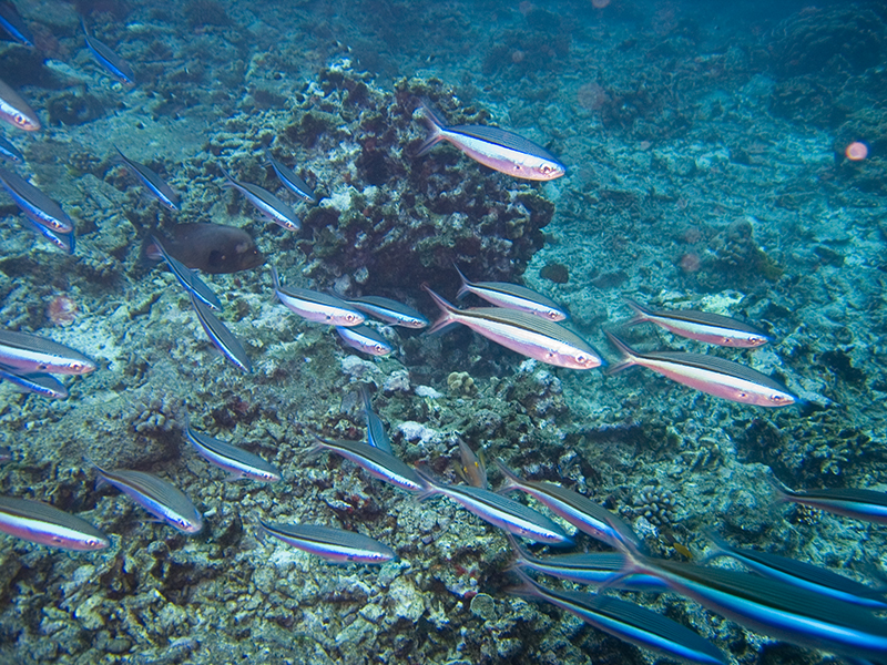 A school of Neon fusiliers, on the West Ridge, Koh Similan, Thailand